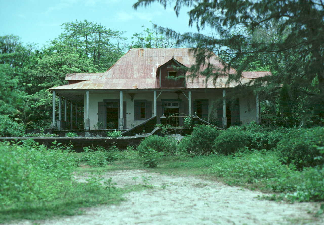 Original caption: "Looking dilapidated, has now been restored."